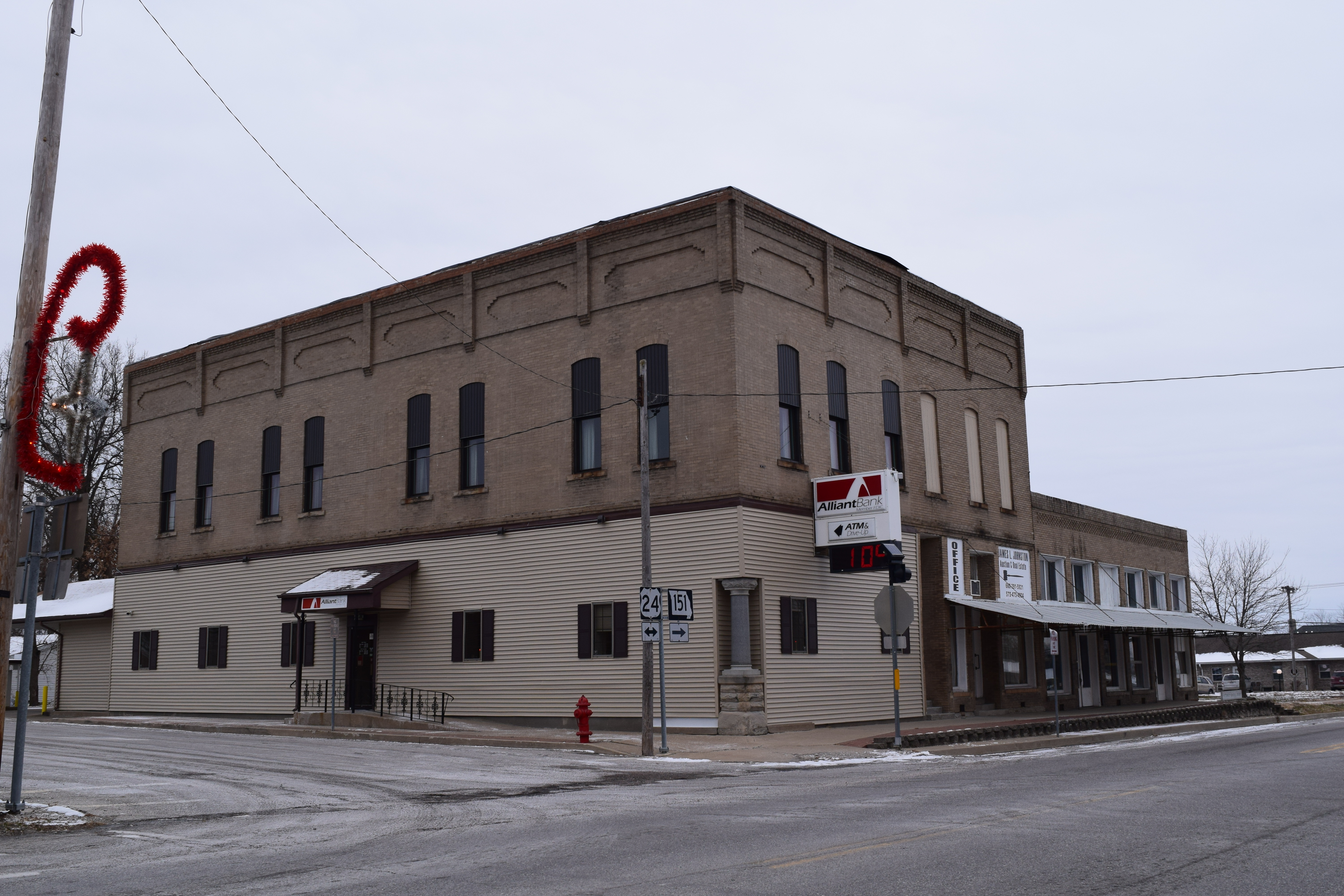 Intersection of U.S. Route 24 and Missouri Route 151 in downtown Madison, Missouri|.